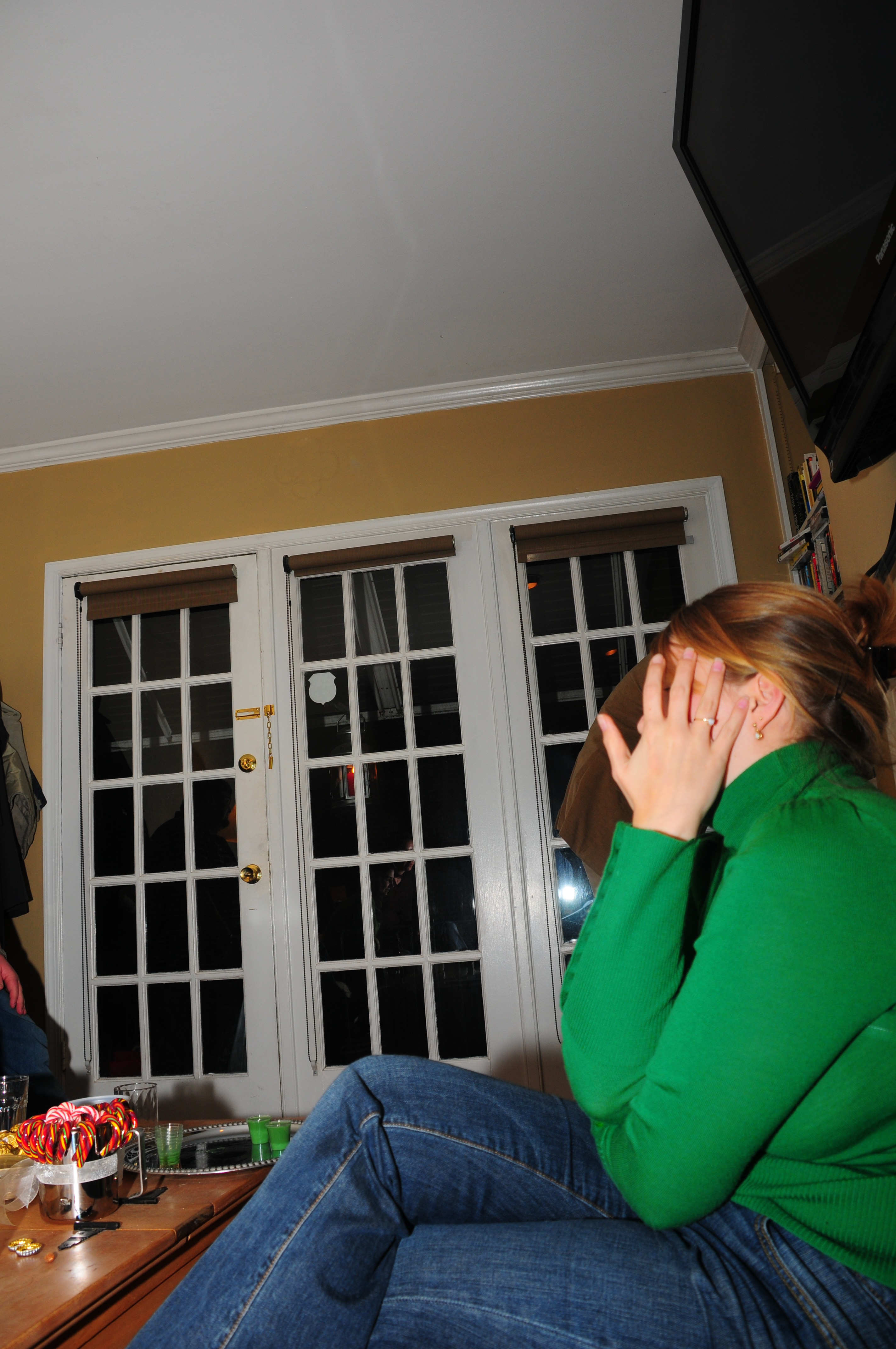 A camera shy woman at a party.